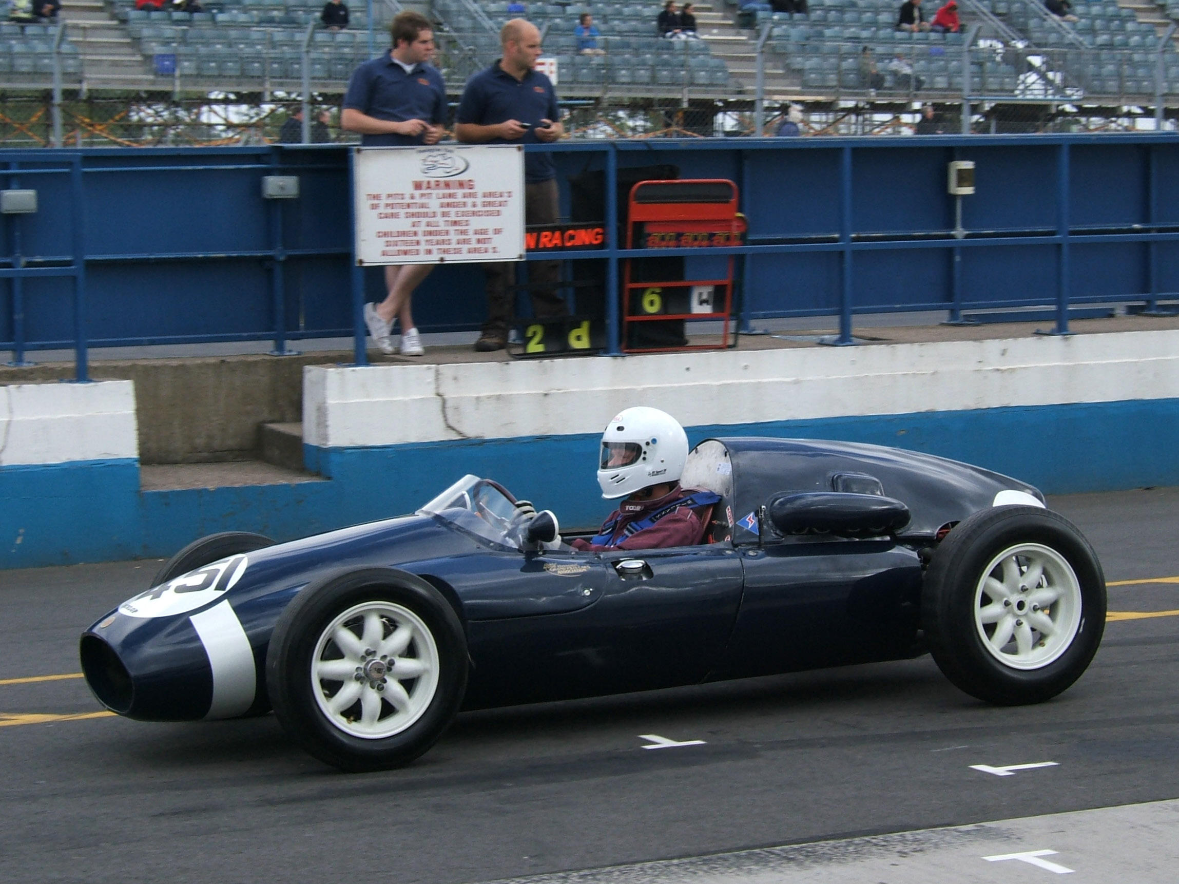 An ex-Rob Walker Racing Cooper T45, driving through the pit lane during the VSCC SeeRed race meeting, Donington Park, September 2007.